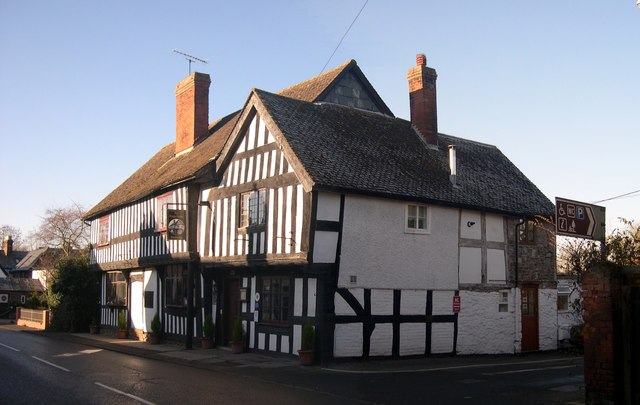 King's House, Pembridge The former Greyhound Inn (renamed the Pembridge Inn by an owner in the 1980s to distance it from its alleged earthy reputation). The cross wing in the foregoround dates from around 1460, the main building from 1514. Now a fine restaurant.